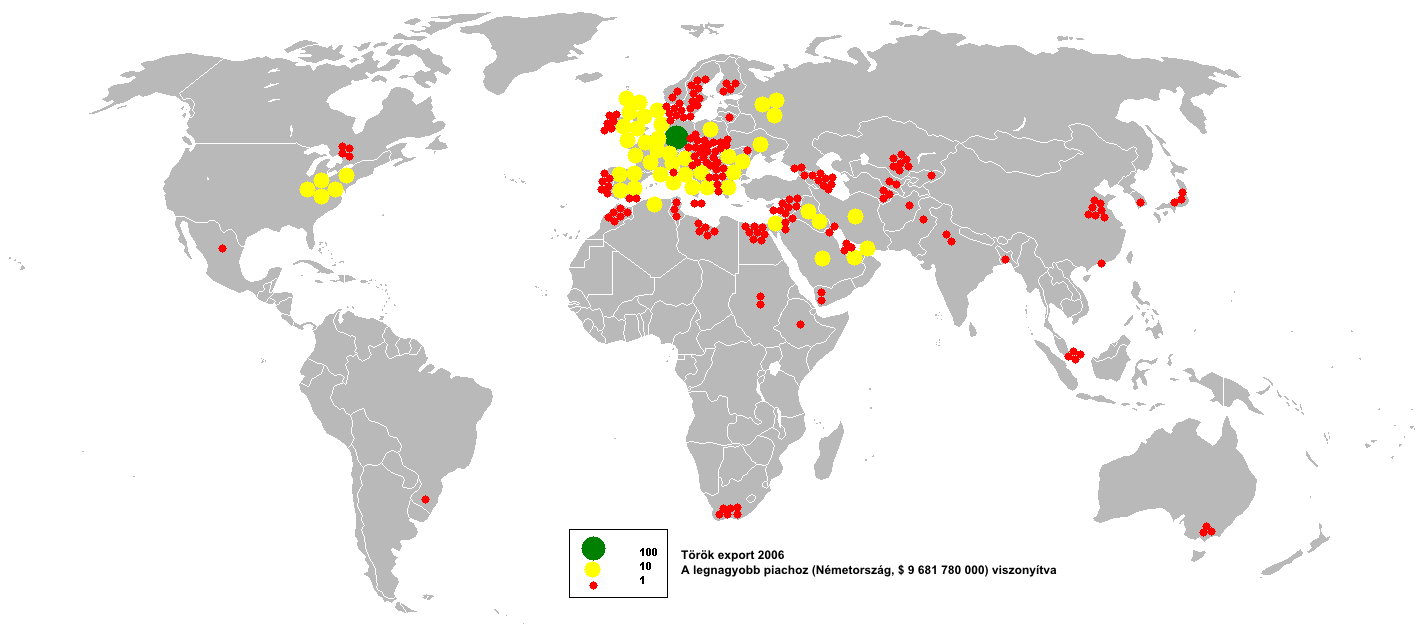 Hungarian version of Image:2006Turkish exports.PNG: This bubble map shows the global distribution of Turkish exports in 2006 as a percentage of the top market (Germany - $9,681,780,000). This map is consistent with incomplete set of data too as long as the top producer is known. It resolves the accessibility issues faced by colour-coded maps that may not be properly rendered in old computer screens. Data was extracted on 18th September 2007 from Based on Image:BlankMap-World.png